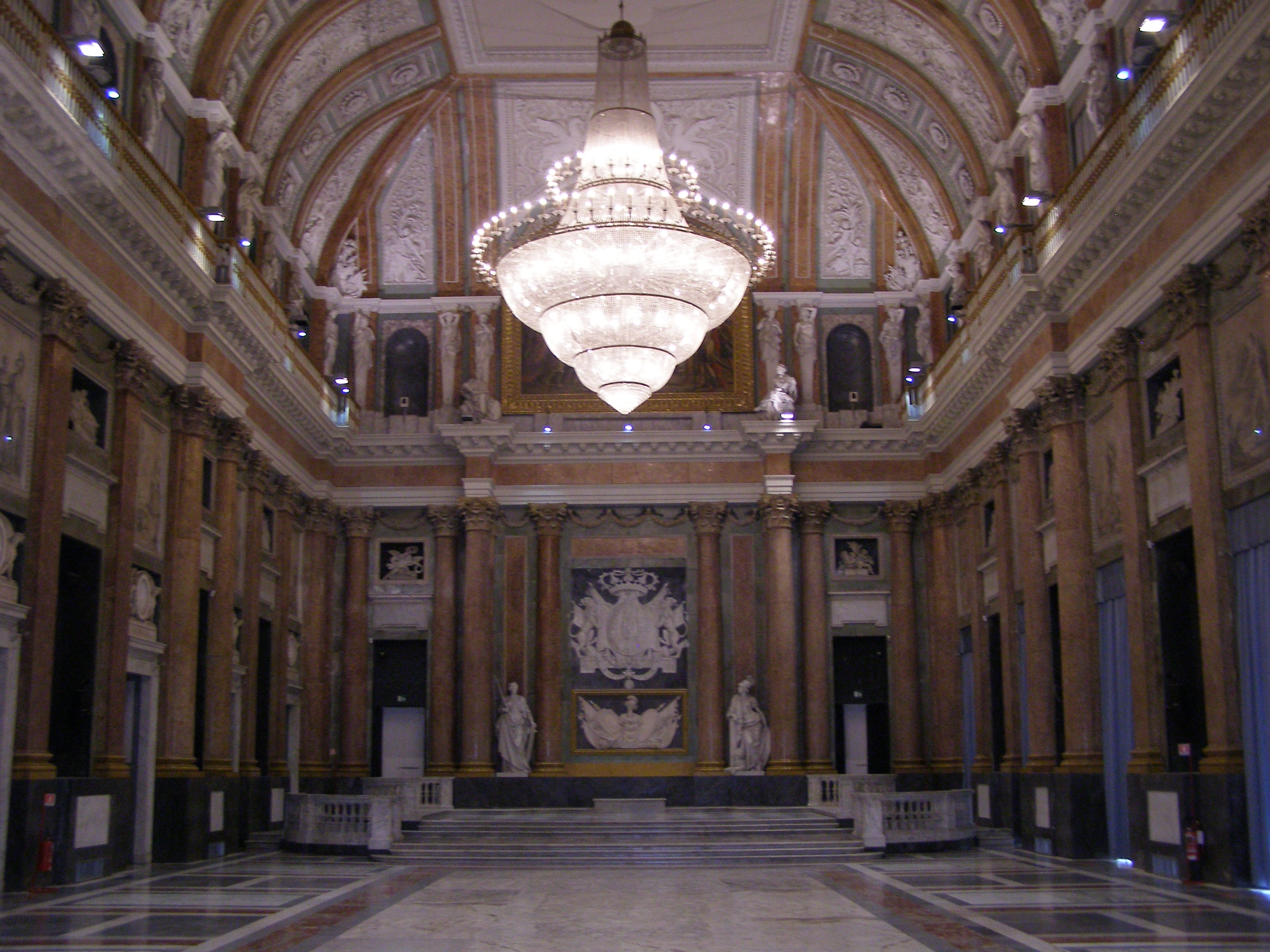 Genoa - Palace of the Doges - Hall of the Greater Council